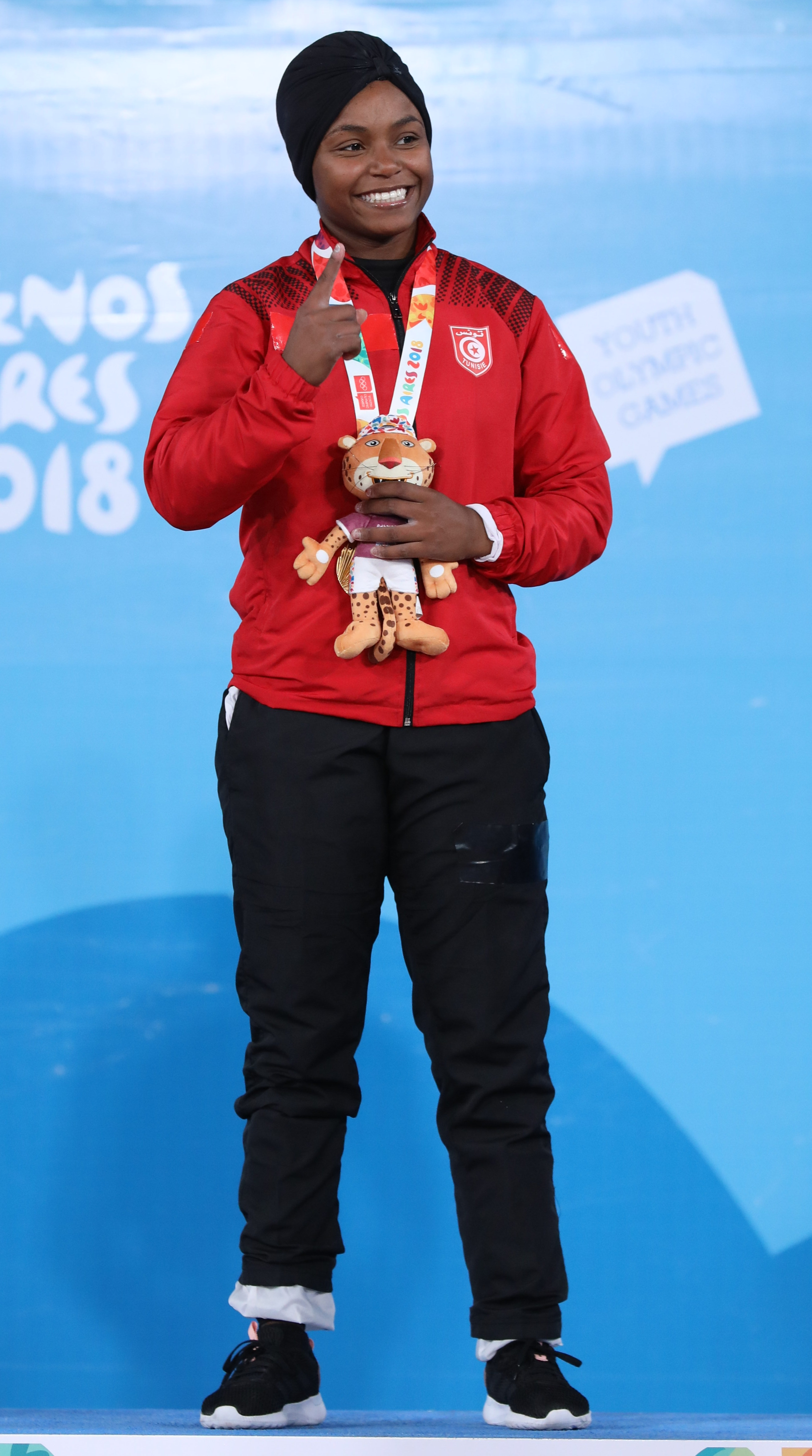 Weightlifting female, 58 kg: Victory ceremony